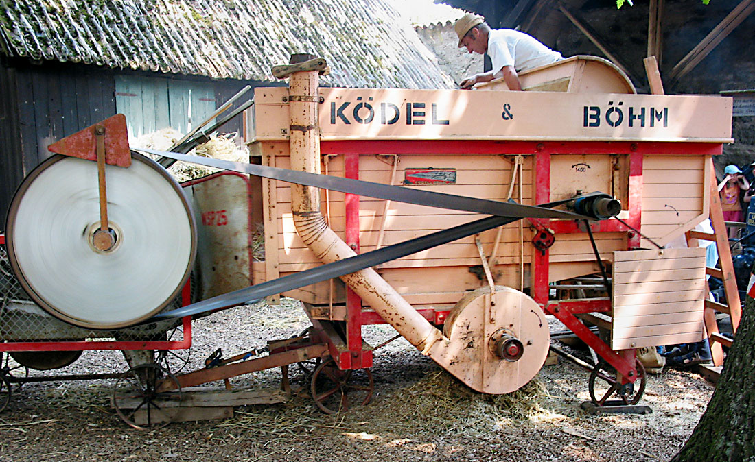 Ködel & Böhm threshing machine (and Welger WSP 25 baler) in Dinkelsbühl, Germany